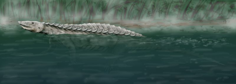 Longosuchus meani, an aetosaur from the Late Triassic of North America